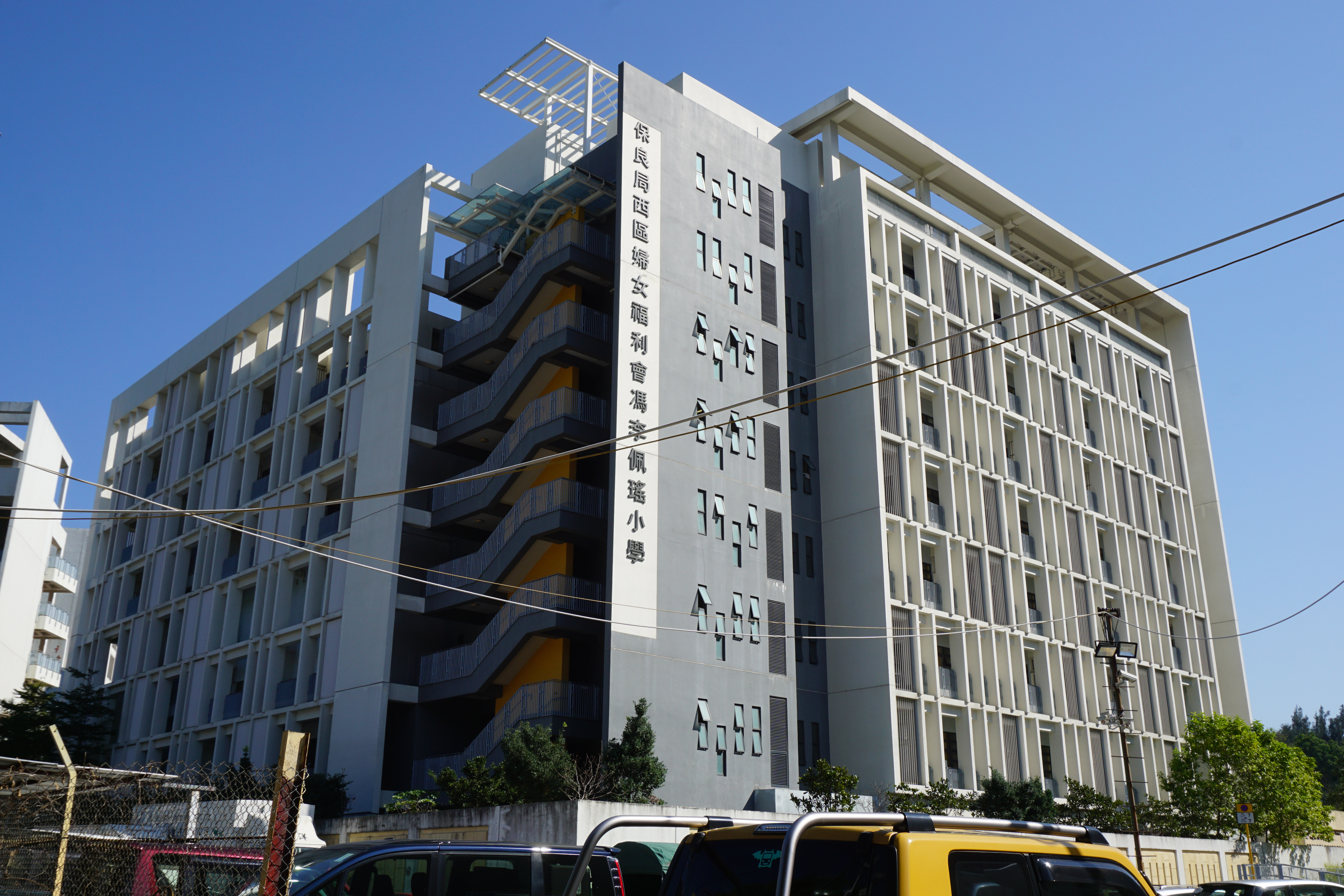 PLK Women's Welfare Club Western District Fung Lee Pui Yiu Primary School in So Kwun Wat, Hong Kong.